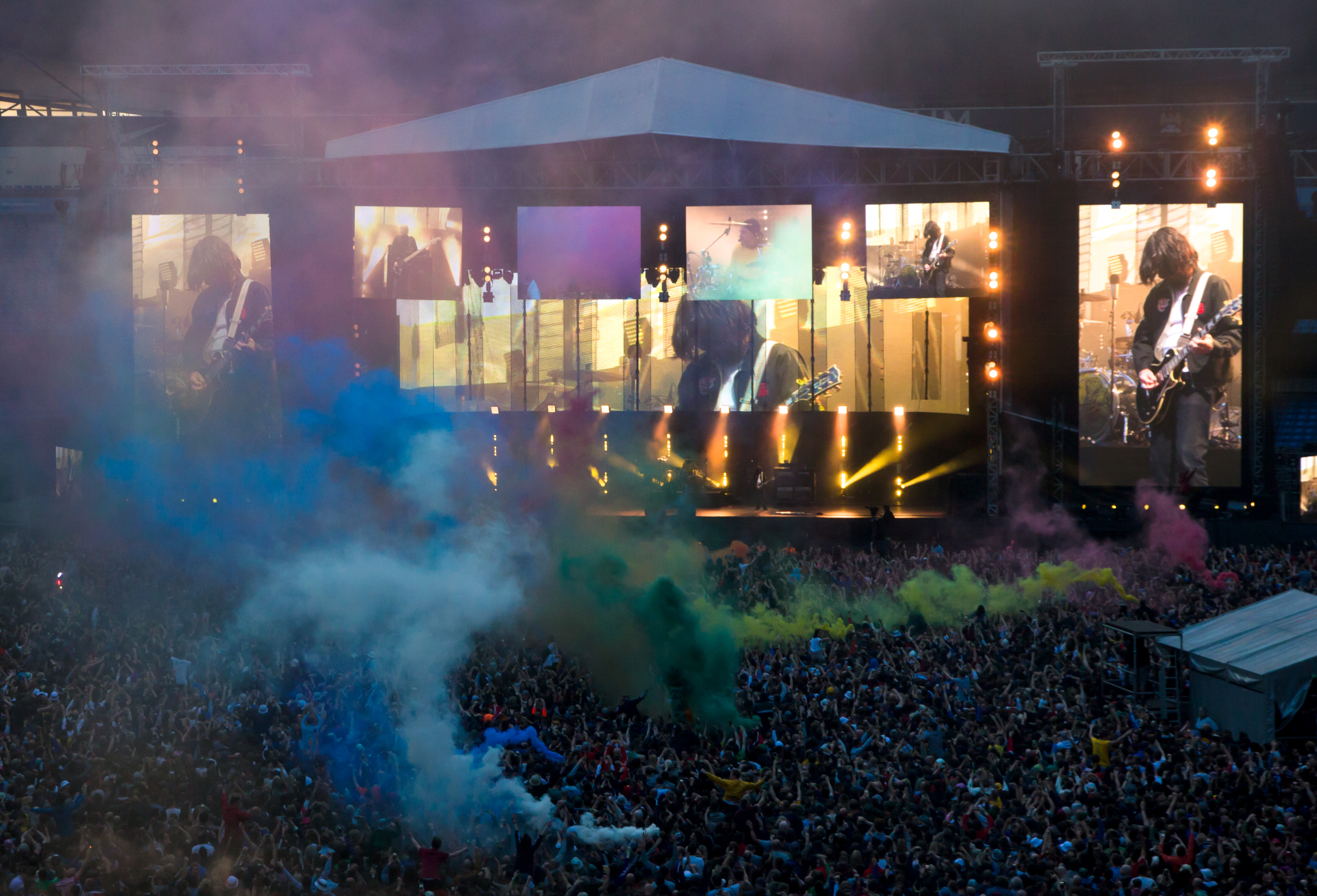 The Stone Roses concert in Manchester, June, 2016